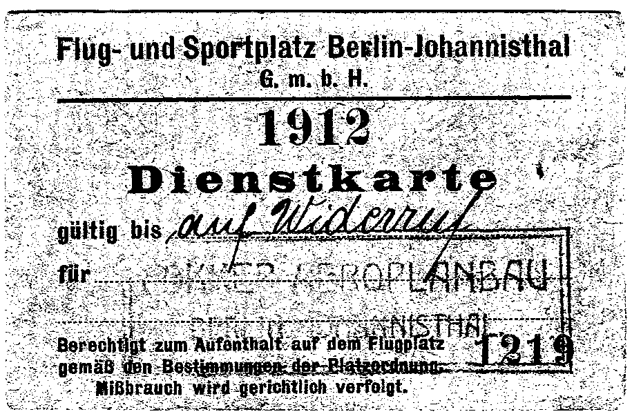 scan of permission for entrance to German airport Berlin-Johannisthal, 1912